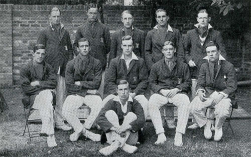 The Oxford side of 1922. Back: CJ Knott, RC Robertson-Glasgow, BH Lyon, TB Raikes, M Patten. Middle: RL Holdsworth, RH Bettington, GTS Stevens, VR Price, LP Hedges. Front: FH Barnard.